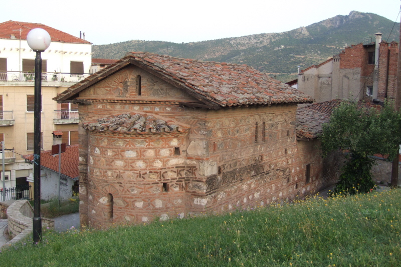 Church Taxiarchis_Gymnasiou in Kastoria, Greece